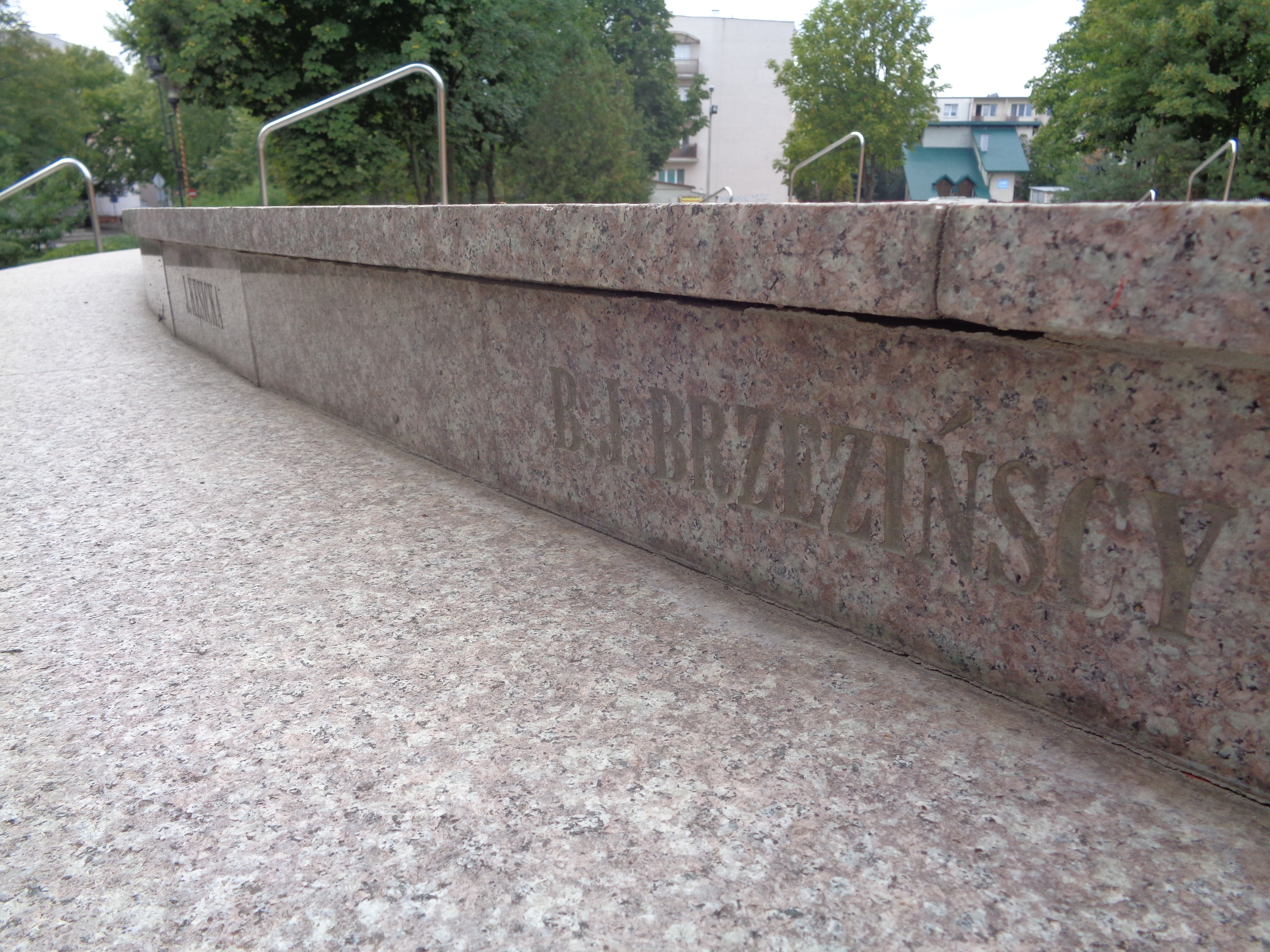 Surnames of donors for stairs rebuilding, which are lead to Church of the Saintest Savior in Włocławek. Here: surname of B.I. Brzeziński family.